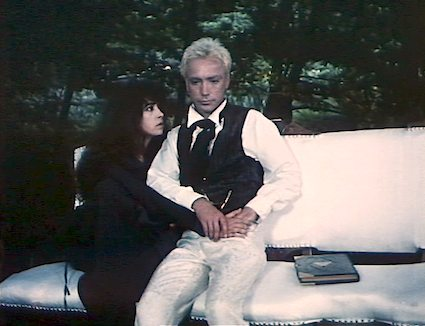 Psyche meets Narcissus in Réde